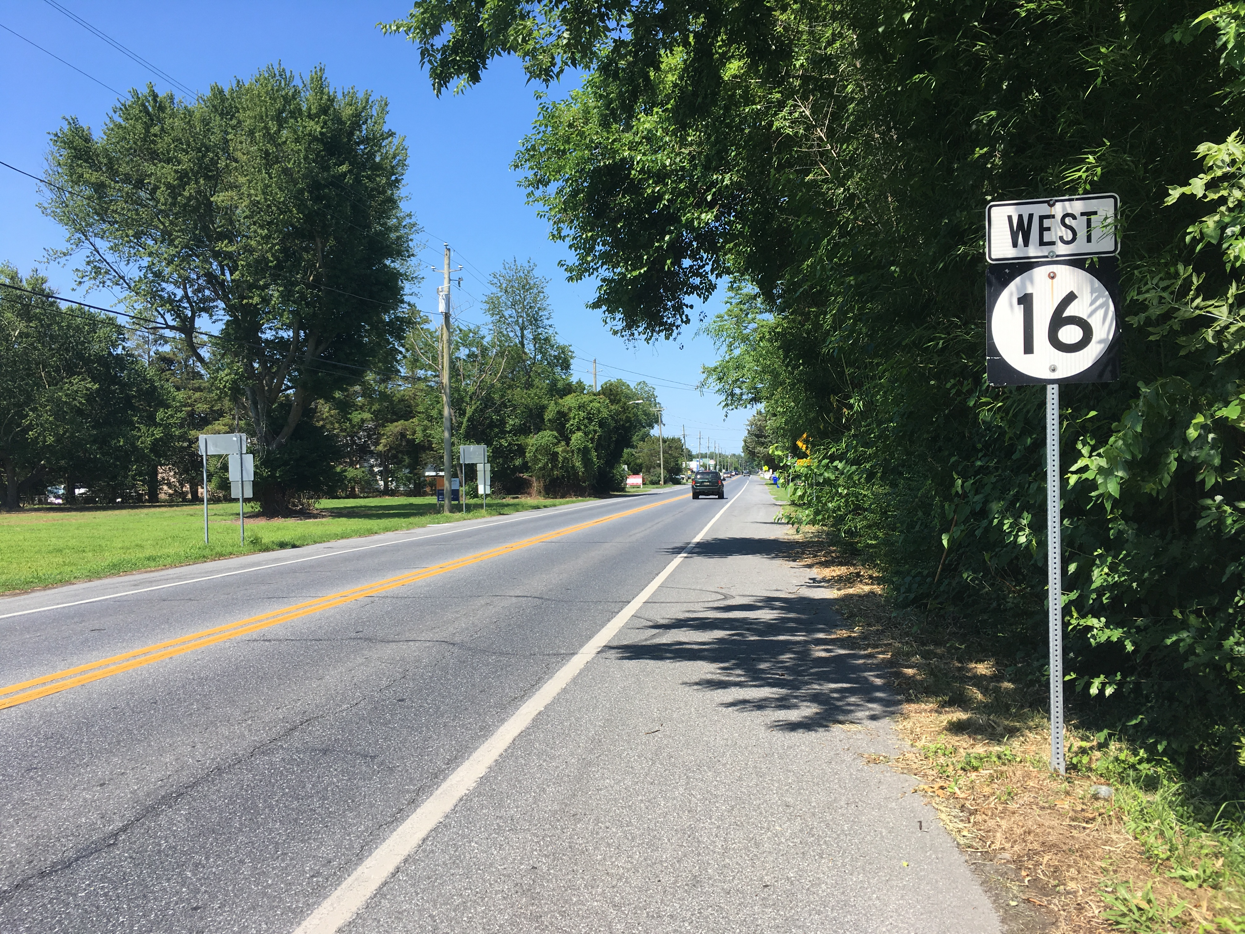 Westbound Delaware Route 16 (Milton Ellendale Highway) past the intersection with Delaware Route 5 (Union Street/Union Street Extended) in Milton, Delaware